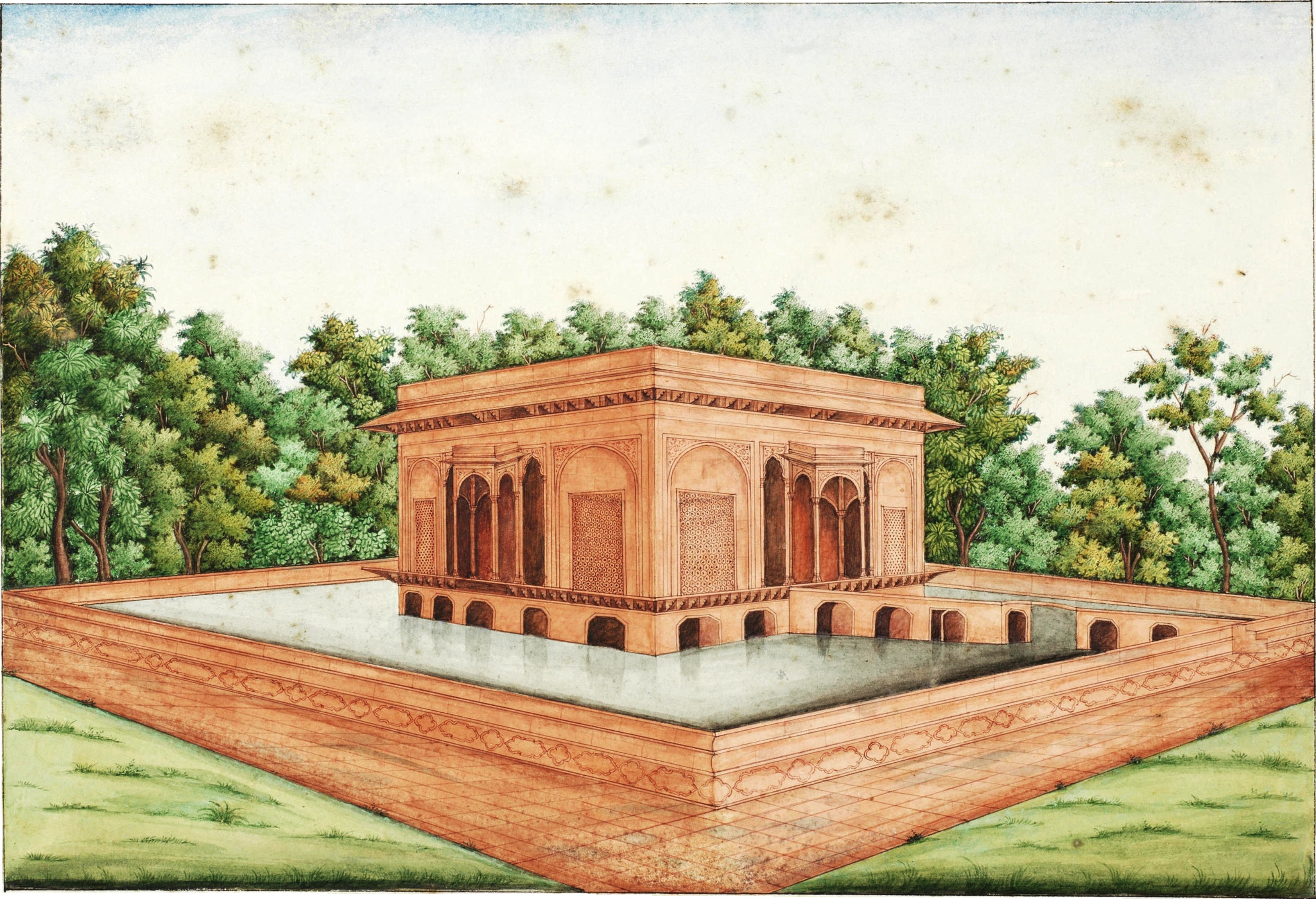 The Zuffer Muhul in the Red Fort. A series of 31 paintings by Ghulam Ali Khan (fl. 1817-55), consisting of views of monuments in and around Delhi, and including four portraits of the last Mughal Emperor Bahadur Shah II (reg. 1837-58) and his sons. Watercolour and gold on paper, black margin rules, three title pages, three sheets of portraits, all with identifying inscriptions in English and in Persian in nasta'liq script in black ink, the portraits with further inscriptions in nasta'liq script with the date November 1852 (Christian date written in Arabic), in later mounts, loose in contemporary green leather-covered despatch box, the lid embossed in gold DELHEE 1854. Size paintings 290 x 215 mm. and slightly smaller; mounts 318 x 394 mm.; box 435 x 365 x 110 mm.